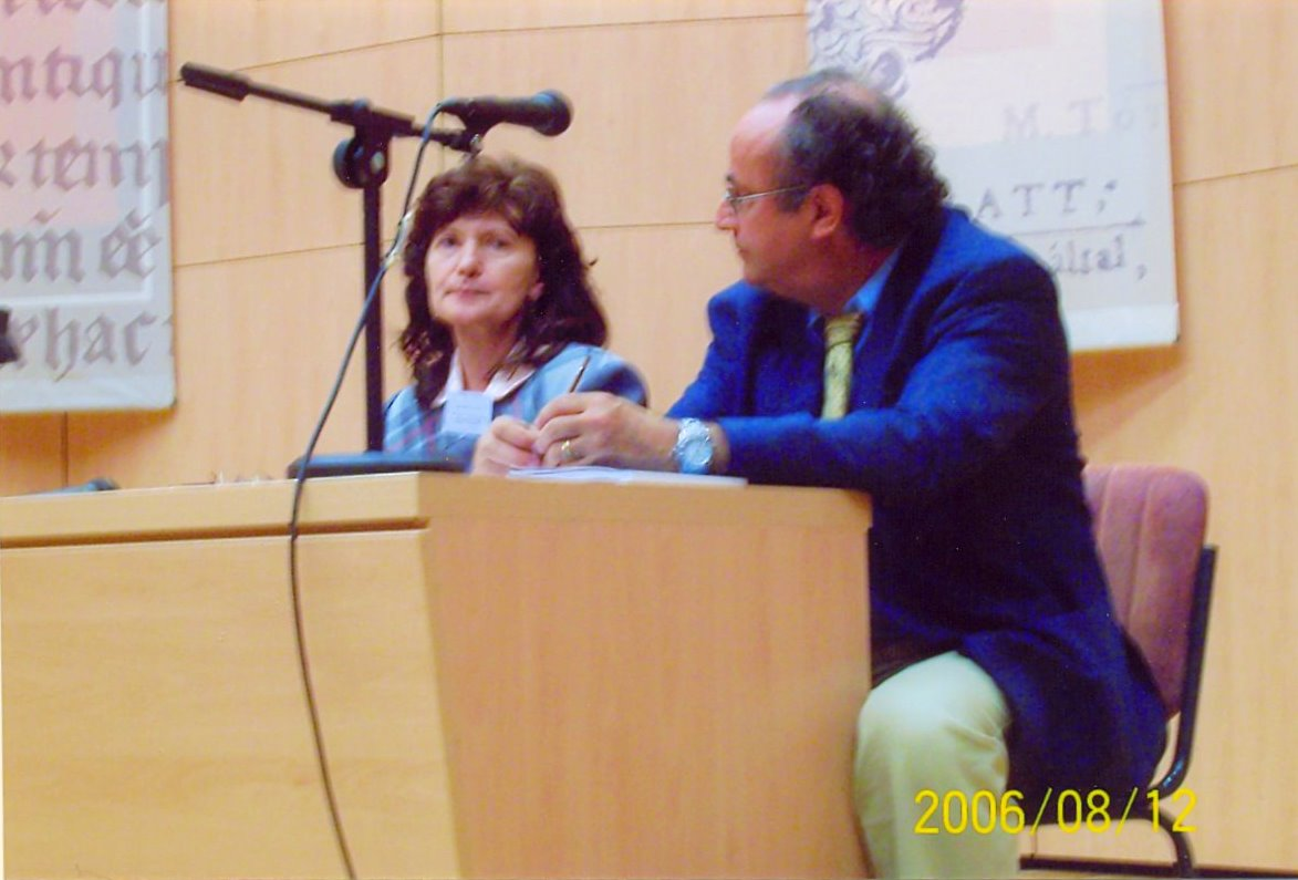 Erzsébet Galántai with Jean-Louis Charlet are on IANLS Thirteenth congress